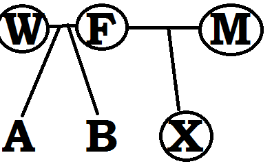 Diagram illustrating example of order of succession in South African law.